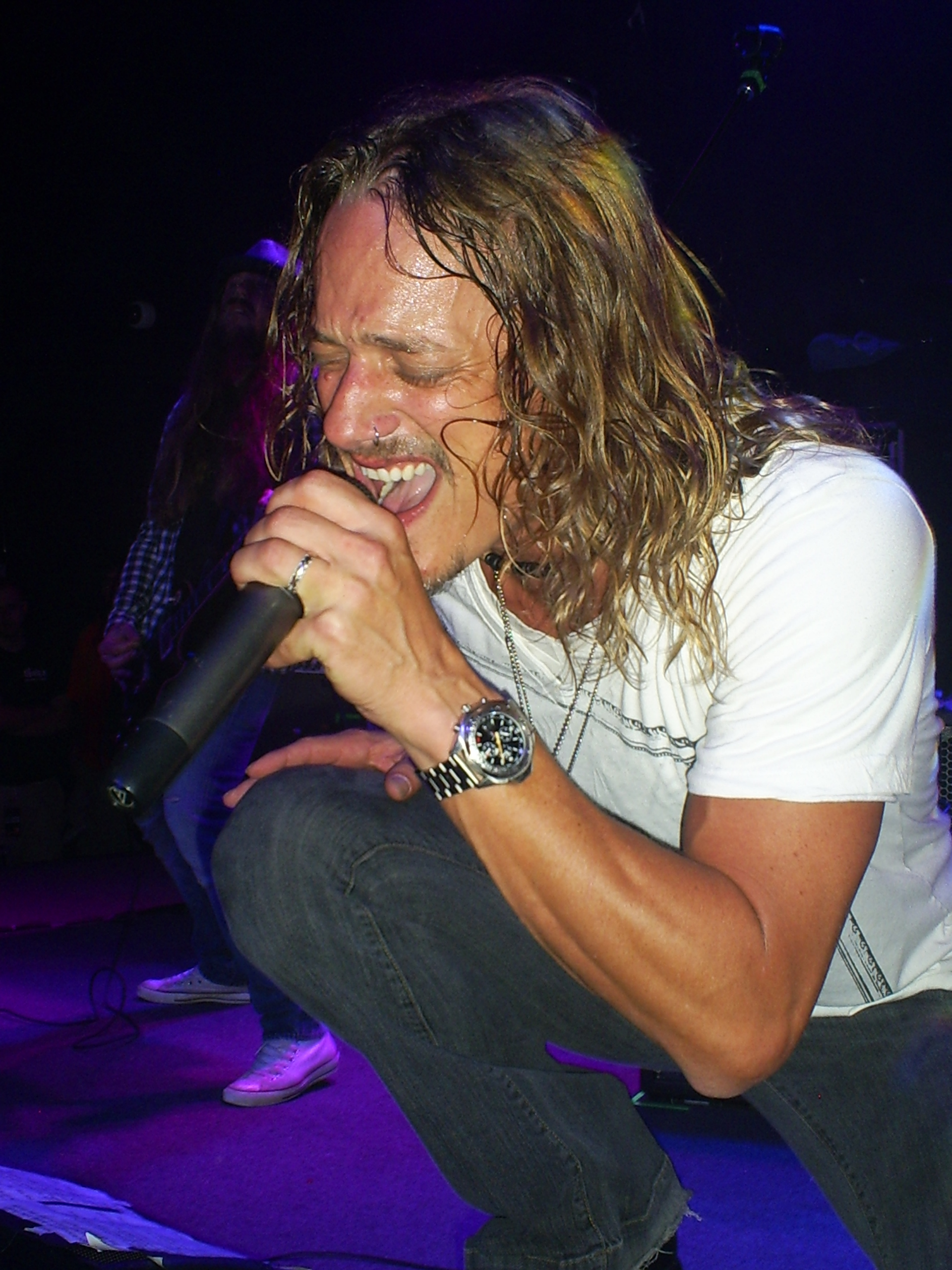 Scallions performing in 2012 with Fuel.